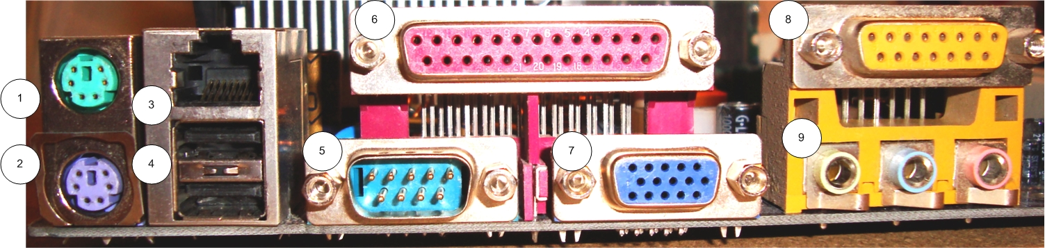 PS/2 (1 - mouse, 2 - keyboard), RJ-45 (3), USB (1), D-Subminiature (5 - COM port, 6 - LPT port, 7 - VGA port, 8 - MIDI) and 3.5 mm jacks for audio input/output (9) at computer motherboard.